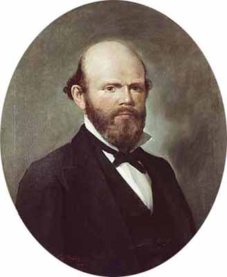 Oil painting of William R. Marshall. Painter: Carl Gutherz (1844-1907) Art Collection, Oil 1881 Location no. AV1996.9.6 Negative no. 82762 Cropped from original image.